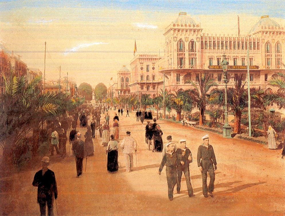 Hotel Internacional in Barcelona, Catalonia, Spain. Color photograph.